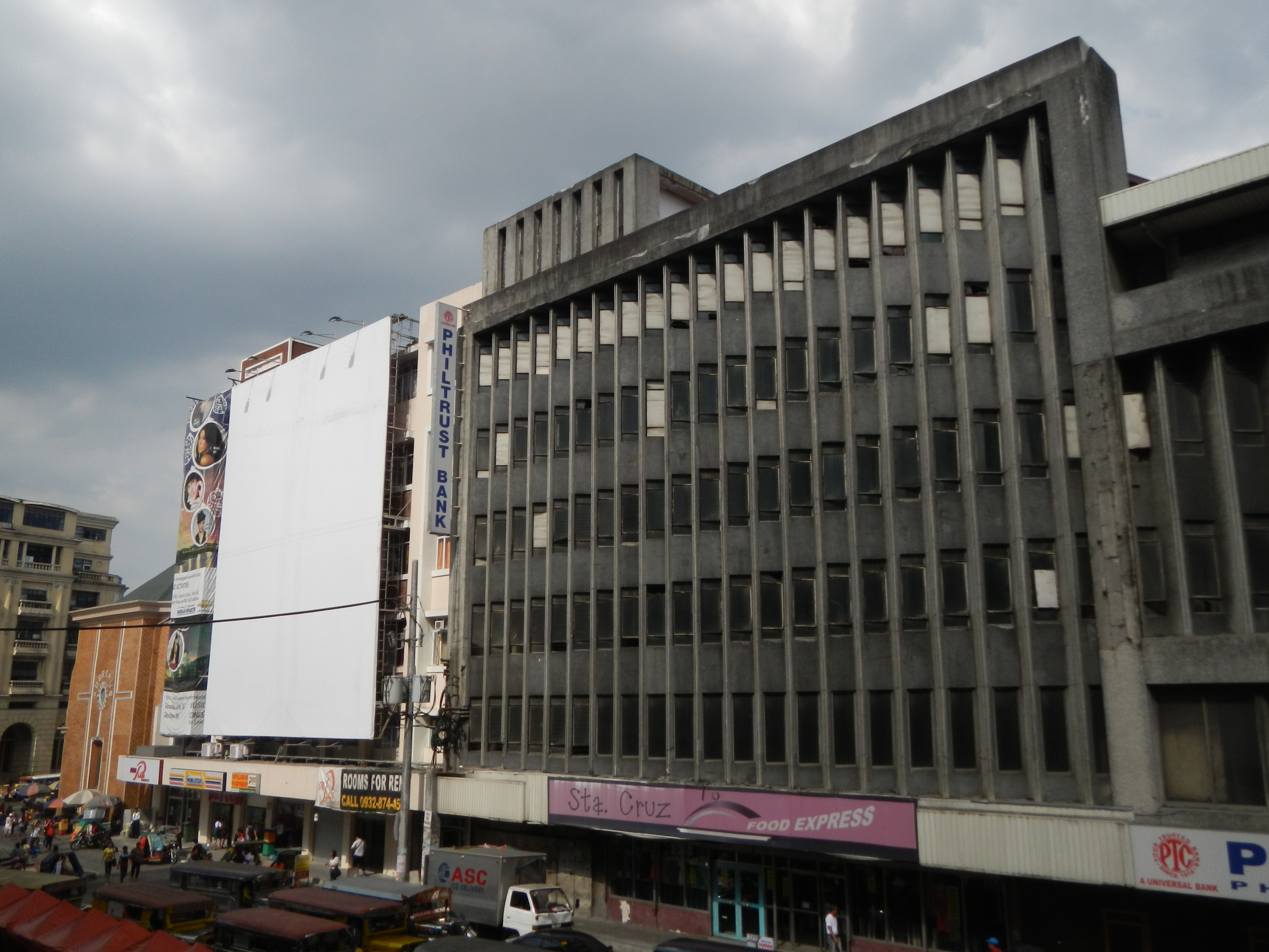 Upload Wizard photos (general description of the landmarkds, angle by angle photography of the city, town, rivers, bridges and interesting points) - a) Plaza Lacson [1] Plaza (de) Goiti, as seen from Carriedo LRT Station [2] the center of the plaza is dominated by a statue of Arsenio Lacson, [3] made in the 1970s by sculptor Eduardo Castrillo, the building of Philtrust Bank [4] with the Church, in front of the gate of FEATI University[5] 306, Manila Founder: Salvador Araneta in 1946 in Santa Cruz, Manila,[6] Philippines. FEATI was formerly known as the Far Eastern Aeronautics School, Dr. Salvador Araneta with his wife Dr. Victoria Lopez de Araneta founded the Far Eastern Air Transport Incorporated (FEATI), b) Escolta Street[7] towards Santa Cruz Bridge [8] 1894, it is one of Manila's few surviving examples of pre-World War II neoclassical architecture Roman R. Santos Building, Bank of the Philippine Islands building [9] c) Patricio Mariano [10] Patricio Geronimo Mariano (17 March 1877 at Santa Cruz, Manila – 28 January 1935) was a Filipino nationalist, revolutionary, pundit, poet, playwright, dramatist, short story writer, novelist, journalist, violinist, and painter. Mariano was a Katipunan member by the Pasig River [11] Escolta Street runs parallel to the Pasig River, from Plaza Santa Cruz to Plaza Moraga and Quintin Paredes Street home to several fine examples of early skyscraper design in the Philippines. In Spanish, it is known as calle de la Escolta - Regina Building built in 1934, this four-storey building was designed in the neo-classical style by Andres Luna de San Pedro, Burke Building named after philantropist, William J. Burke,[12] the building is known as the location of the first elevator in Manila, Perez Samanillo Building art deco architecture in Manila, it was the tallest building in Manila at the time of its completion in 1928. Designed by Andres Luna de San Pedro, the building is now known as First United Building, Santa Cruz Building.